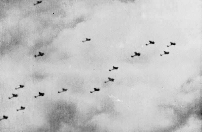 A still from camera-gun film taken from a Supermarine Spitfire Mark I of No. 609 Squadron RAF, flown by by Pilot Officer J D Bisdee, as he dives on a formation of Heinkel He IIIs of KG 55 which had just bombed the Supermarine aircraft works at Woolston, Southampton. No. 609 Squadron were based at Middle Wallop, Hampshire.